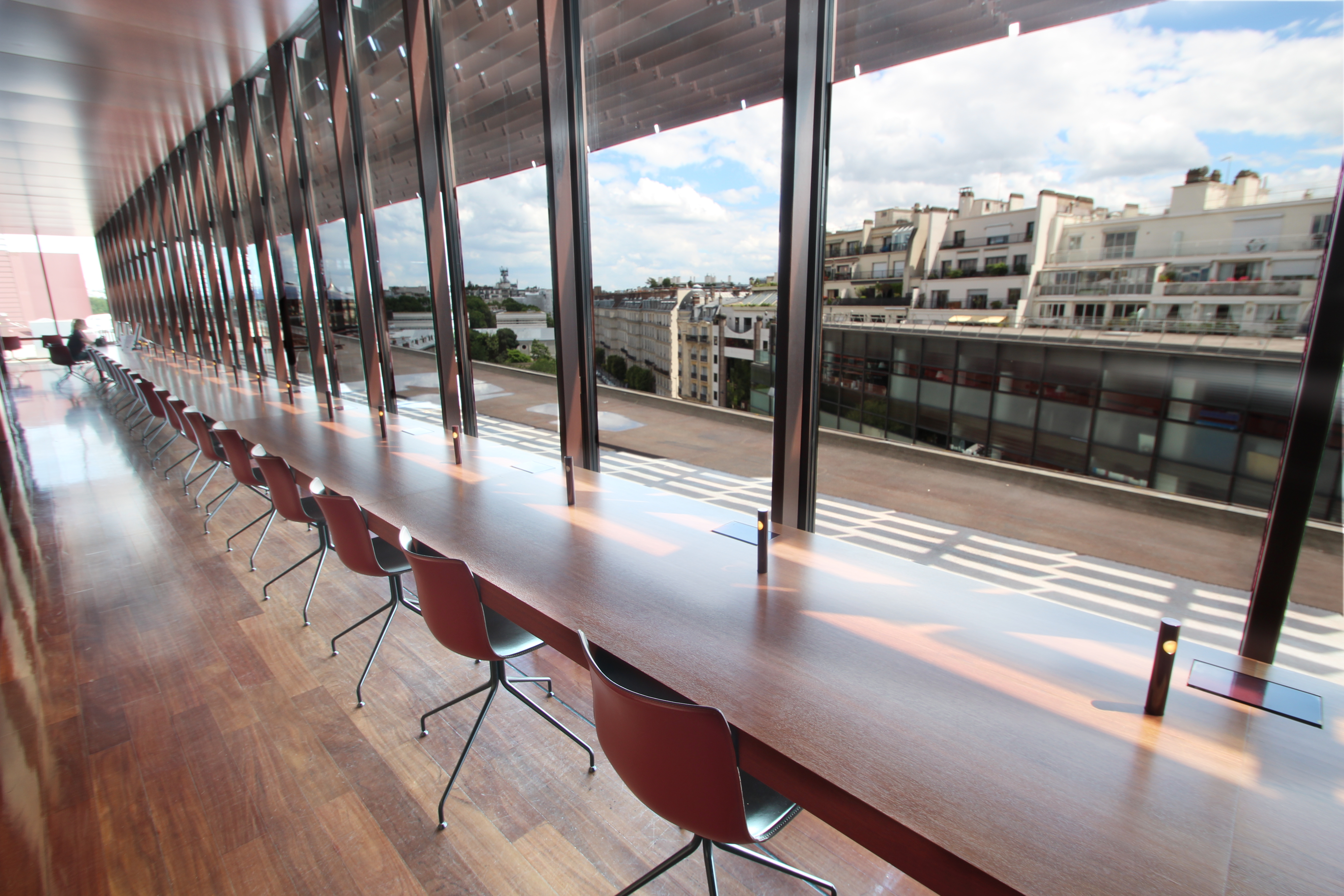 View of the study and research library at the Quai Branly Museum in Paris, France.